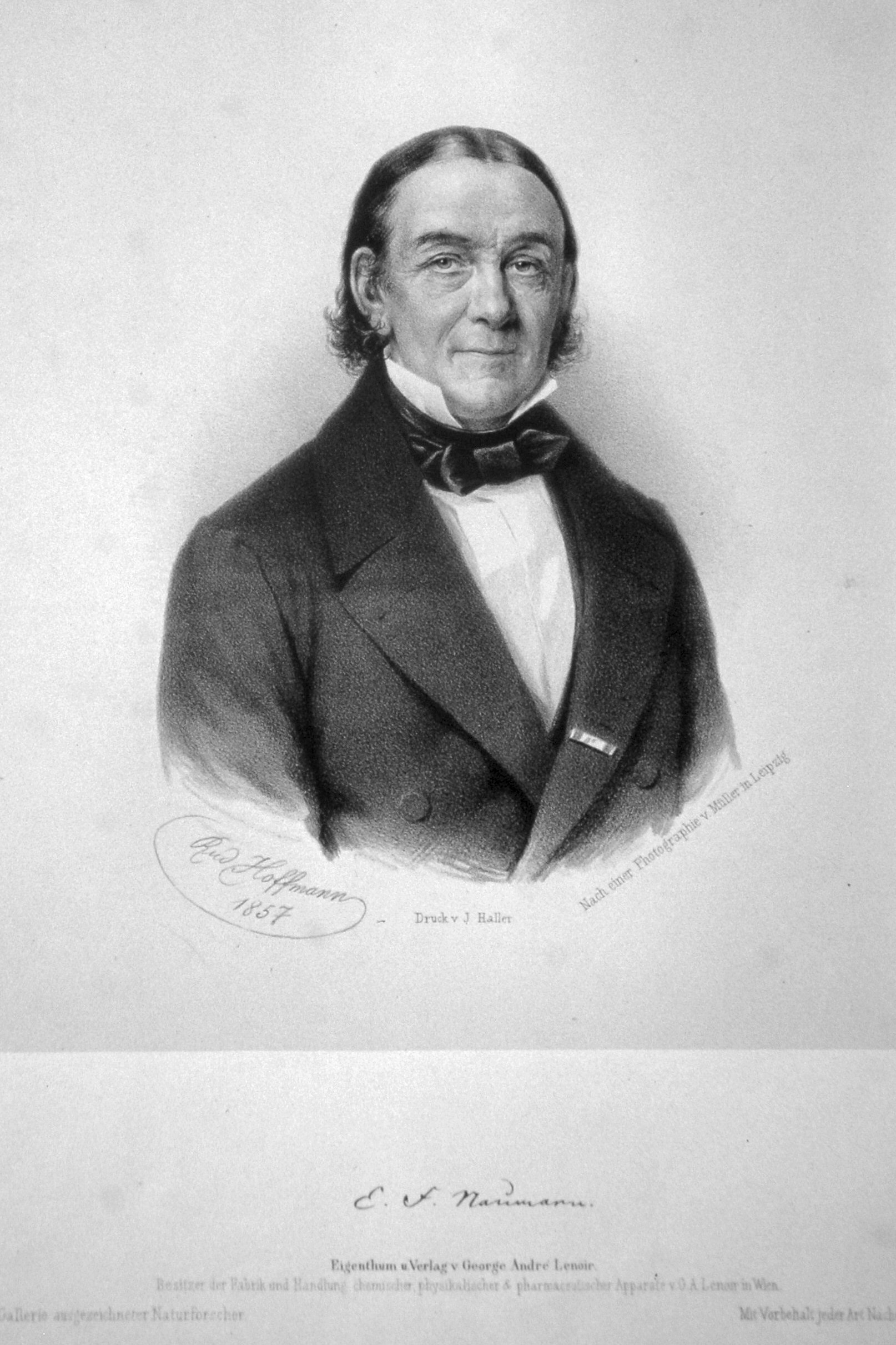 Karl Friedrich Naumann (1797-1873), Lithography by Rudolf Hoffmann, 1857, after a Photo by Müller (Leipzig). From Gallerie ausgezeichneter Naturforscher published in Vienna